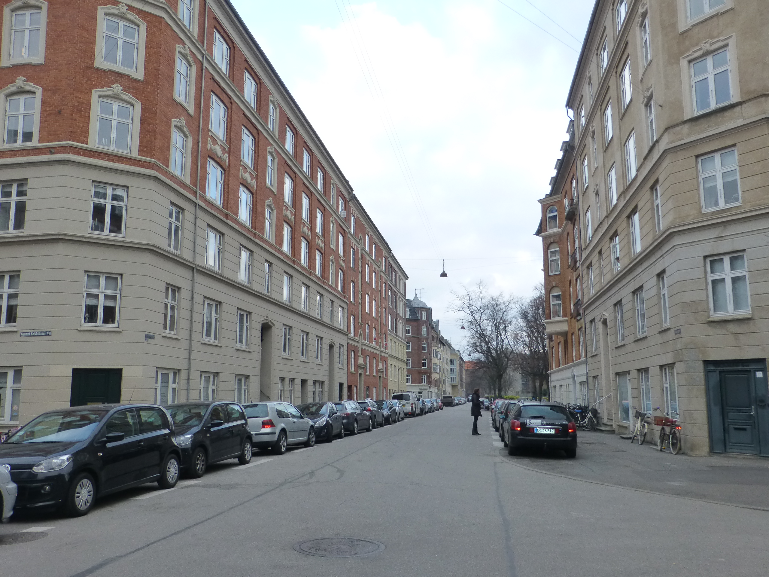 The street Silkeborggade in Østerbro in Copenhagen.